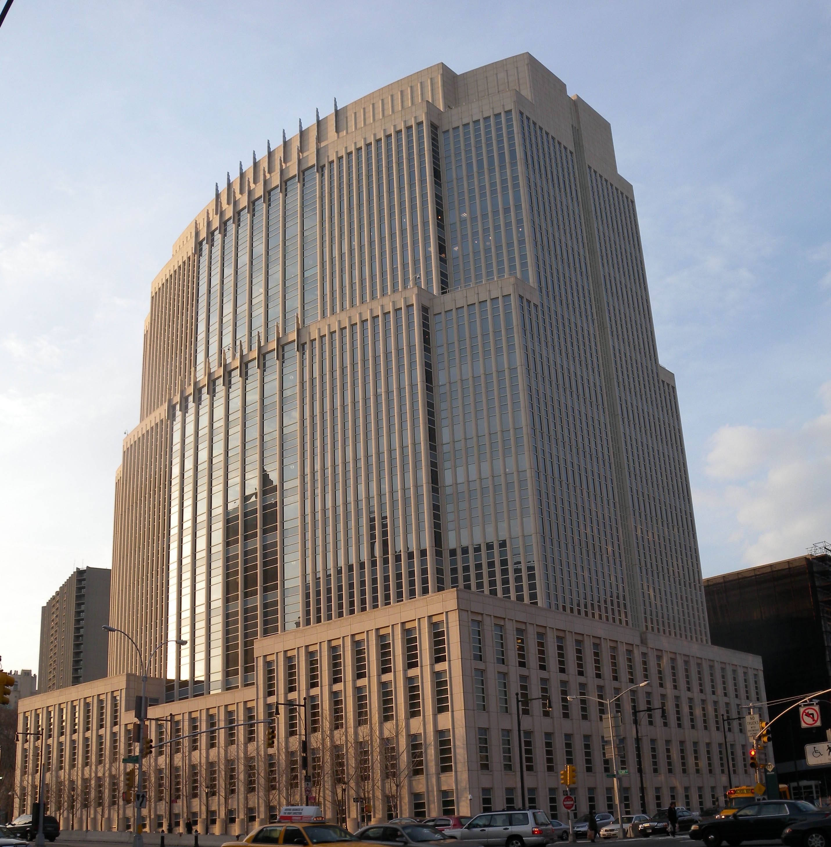 Looking northwest across Boerum and Tillary on a sunny dusk in late winter at 2006 Federal courthouse. See File:Bklyn fed court Tech Pl jeh.jpg for a sunnier look.